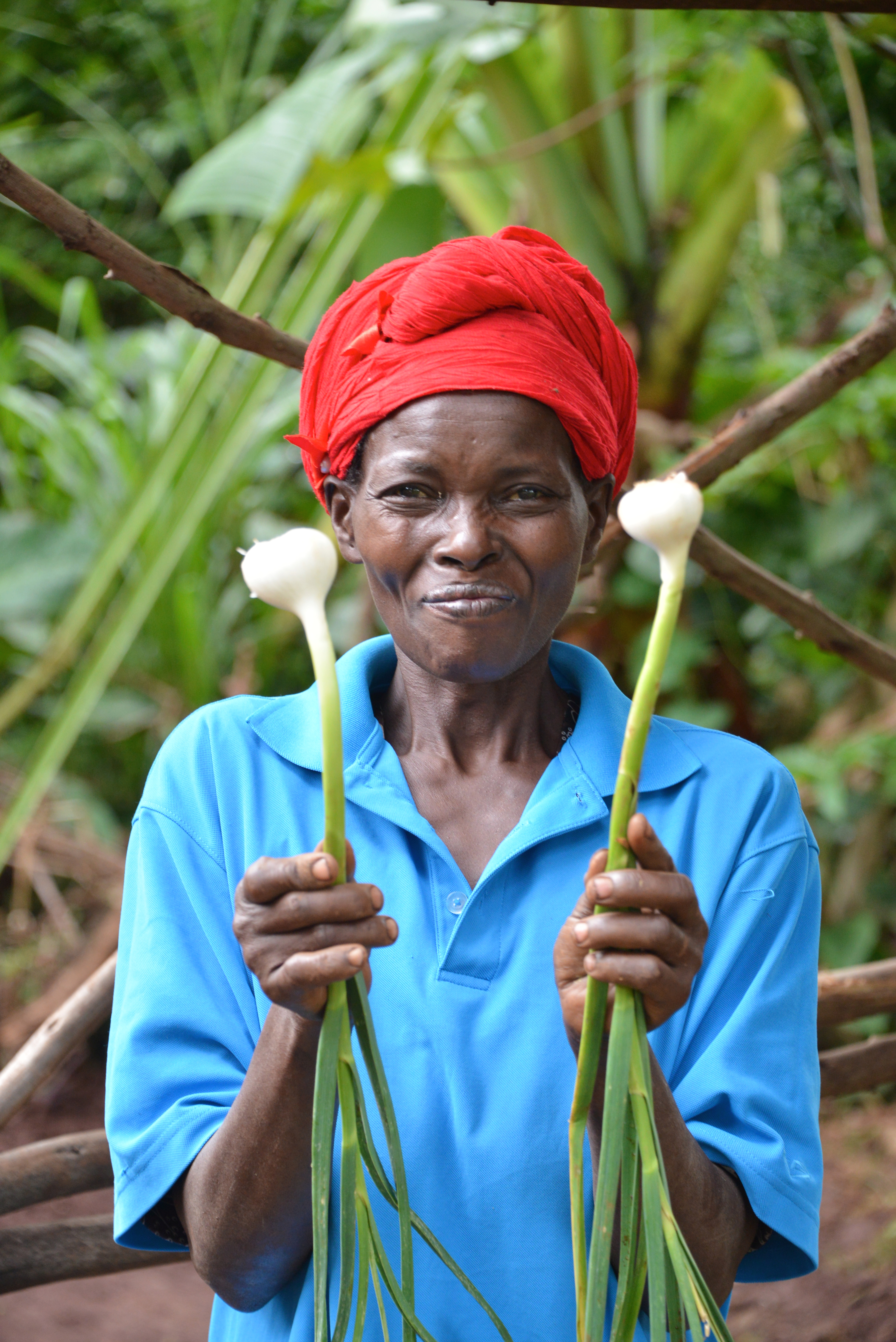 Garlic, Wollaita, Ethiopia